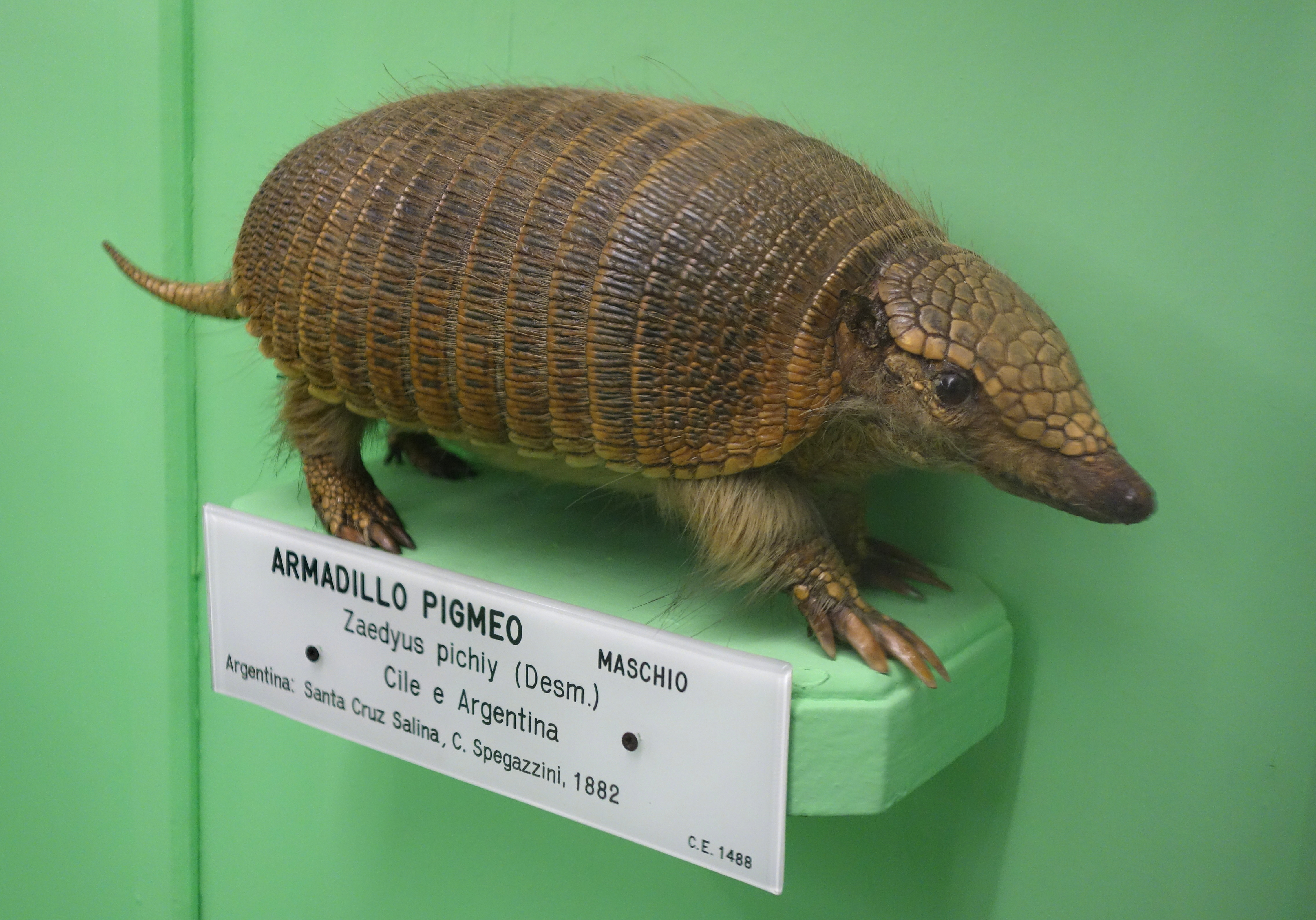 Exhibit in the Museo Civico di Storia Naturale di Genova, Via Brigata Liguria, 9, 16121, Genoa, Italy.